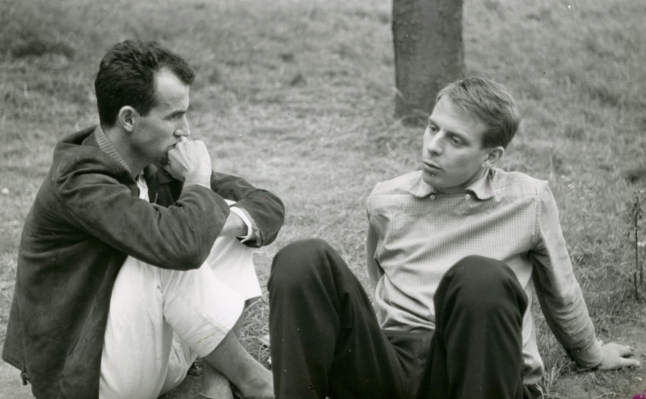 Photograph of the composers Luigi Nono and Karlheinz Stockhausen in Darmstadt, summer 1957.